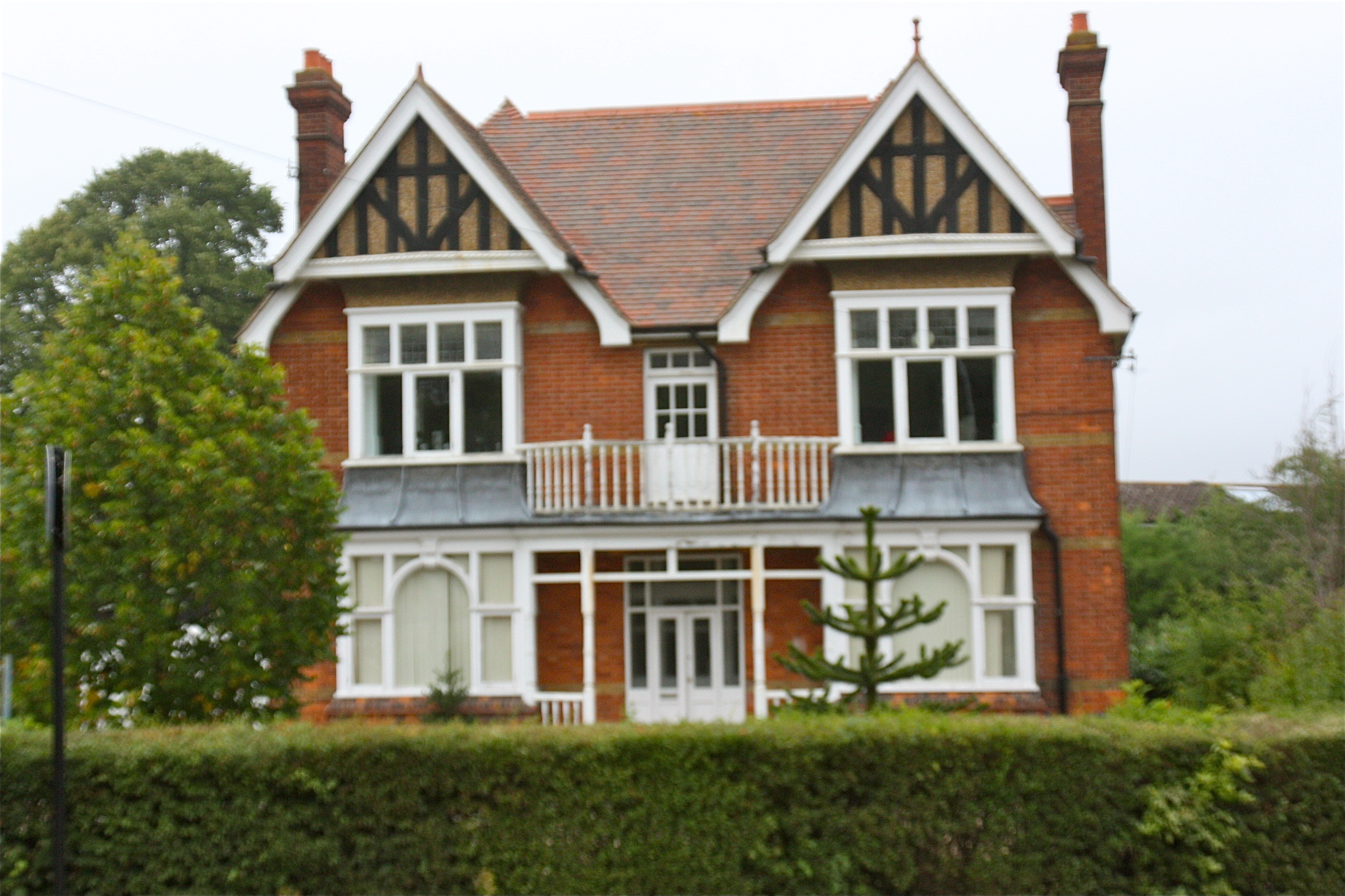 The Lawton's building, used by the Judd School for Music Technology and Economics/Business Studies.